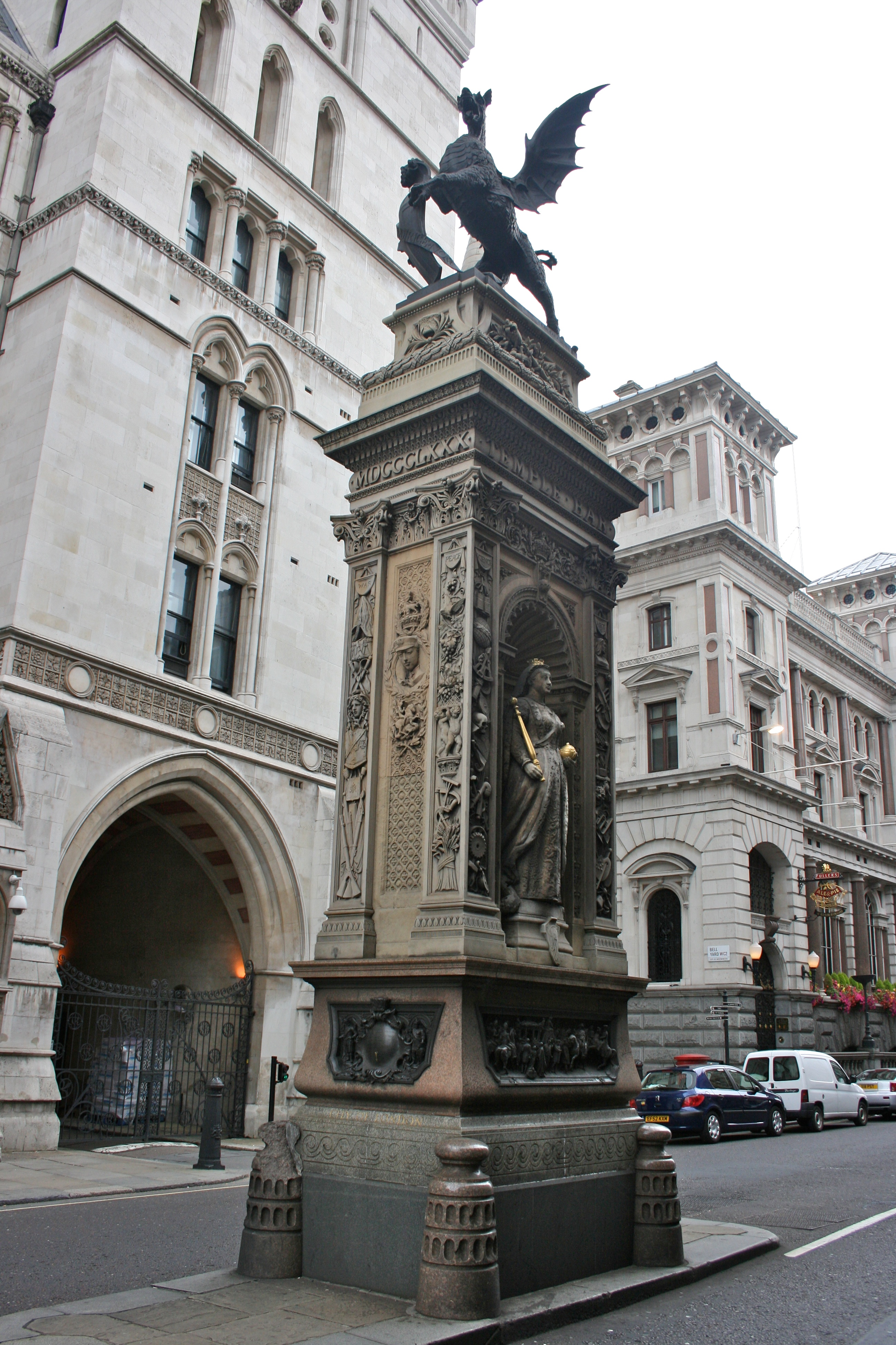 Temple Bar Marker, London.